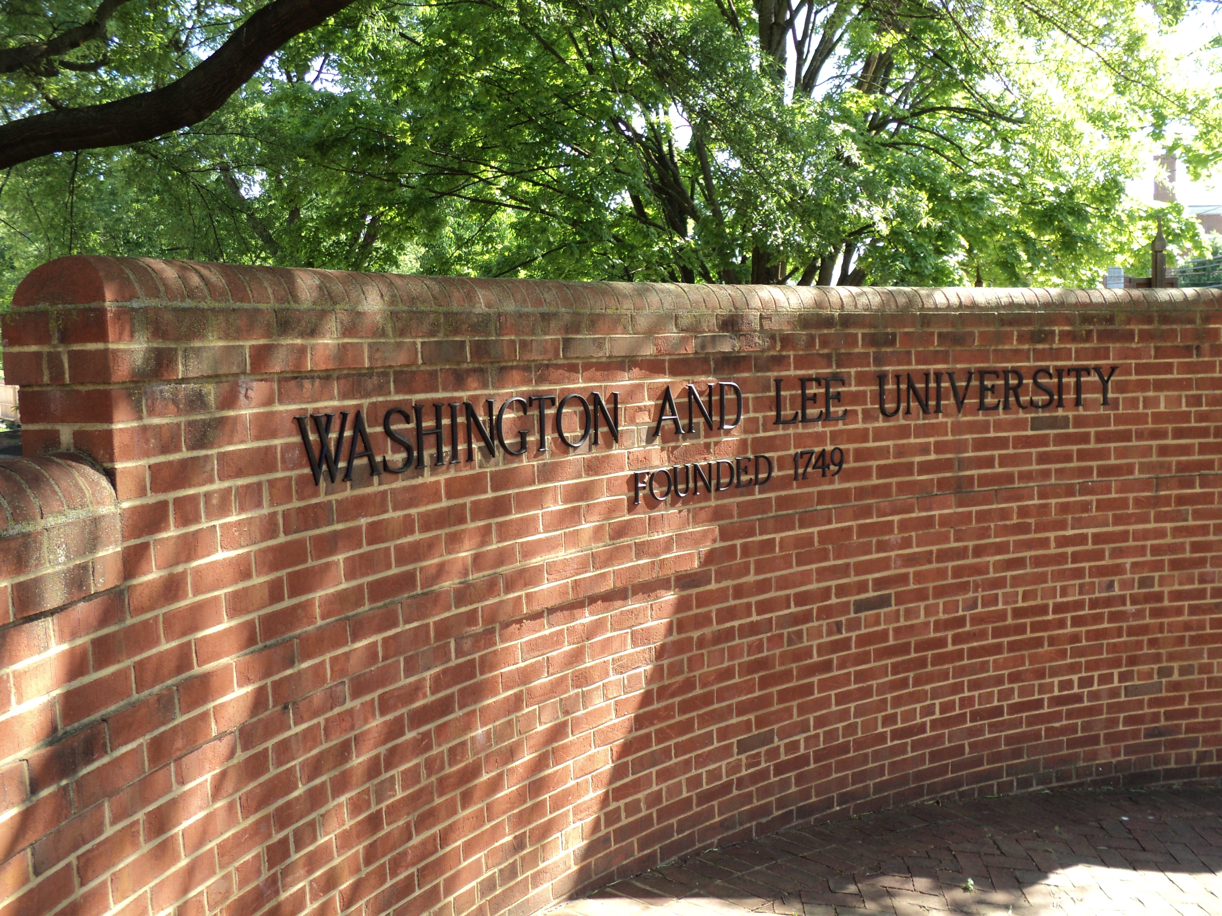 Brick entrance sign for Washington and Lee University, Lexington, Virginia.